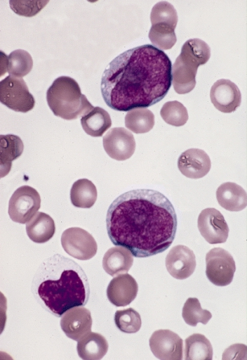 BONE MARROW: AUER RODS Two myeloblasts with single, prominent Auer rods. (Wright-Giemsa stain)